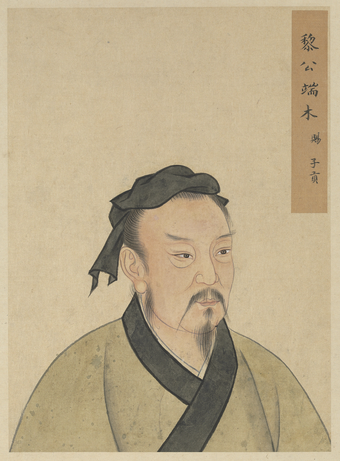 This depicts Duanmu Ci (端木賜), styled Zigong (子貢).